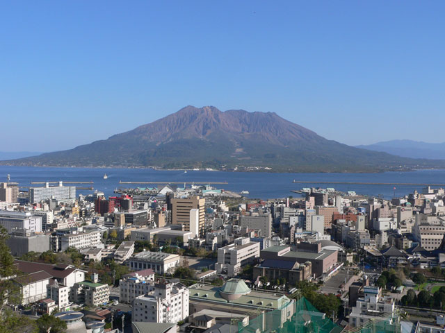 Kagoshima City and Sakurajima, Japan